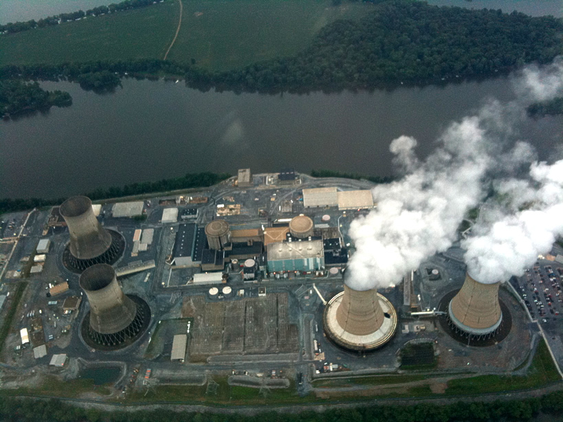 Photo of Three Mile Island Nuclear Generating Station taken on June 6, 2010.